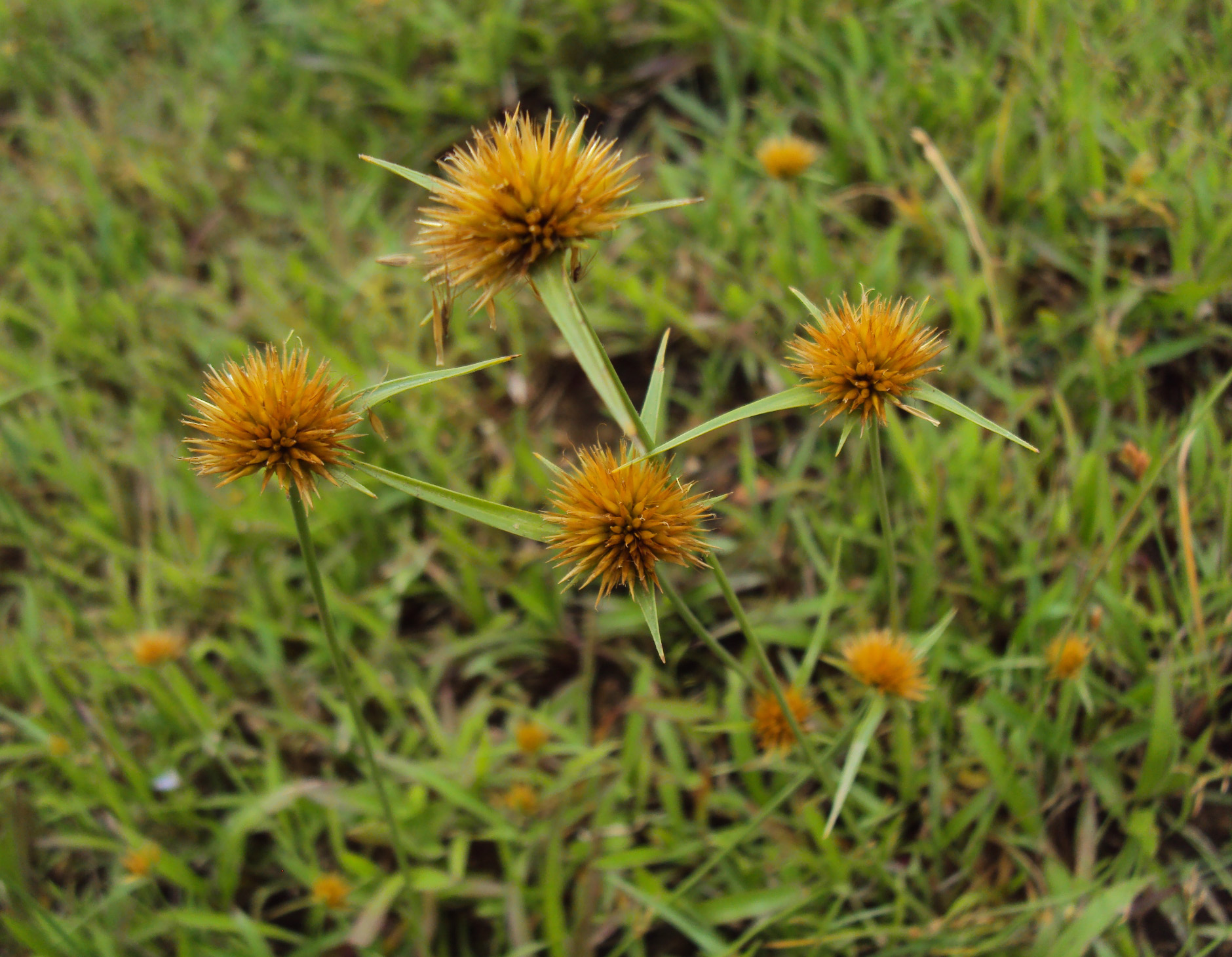 Rhynchospora wightiana